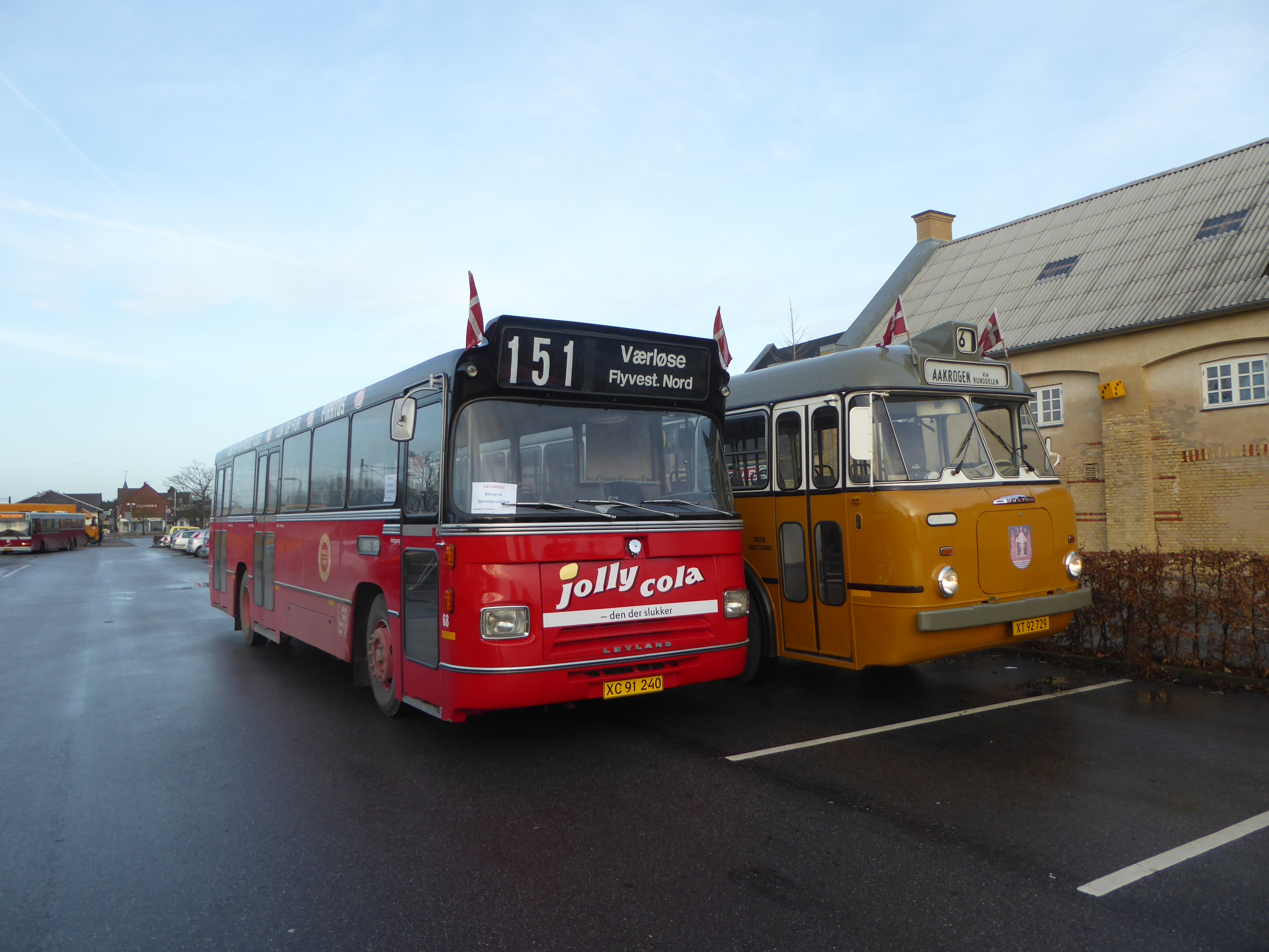 Buses belonging to Sporvejsmuseet Skjoldenæsholm at Borup Station in Denmark. HR 68 from Copenhagen from 1973 and ÅS 165 from Aarhus from 1961.